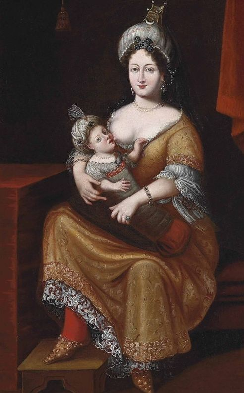 probably Kösem Sultan and her son Murad or Ibrahim